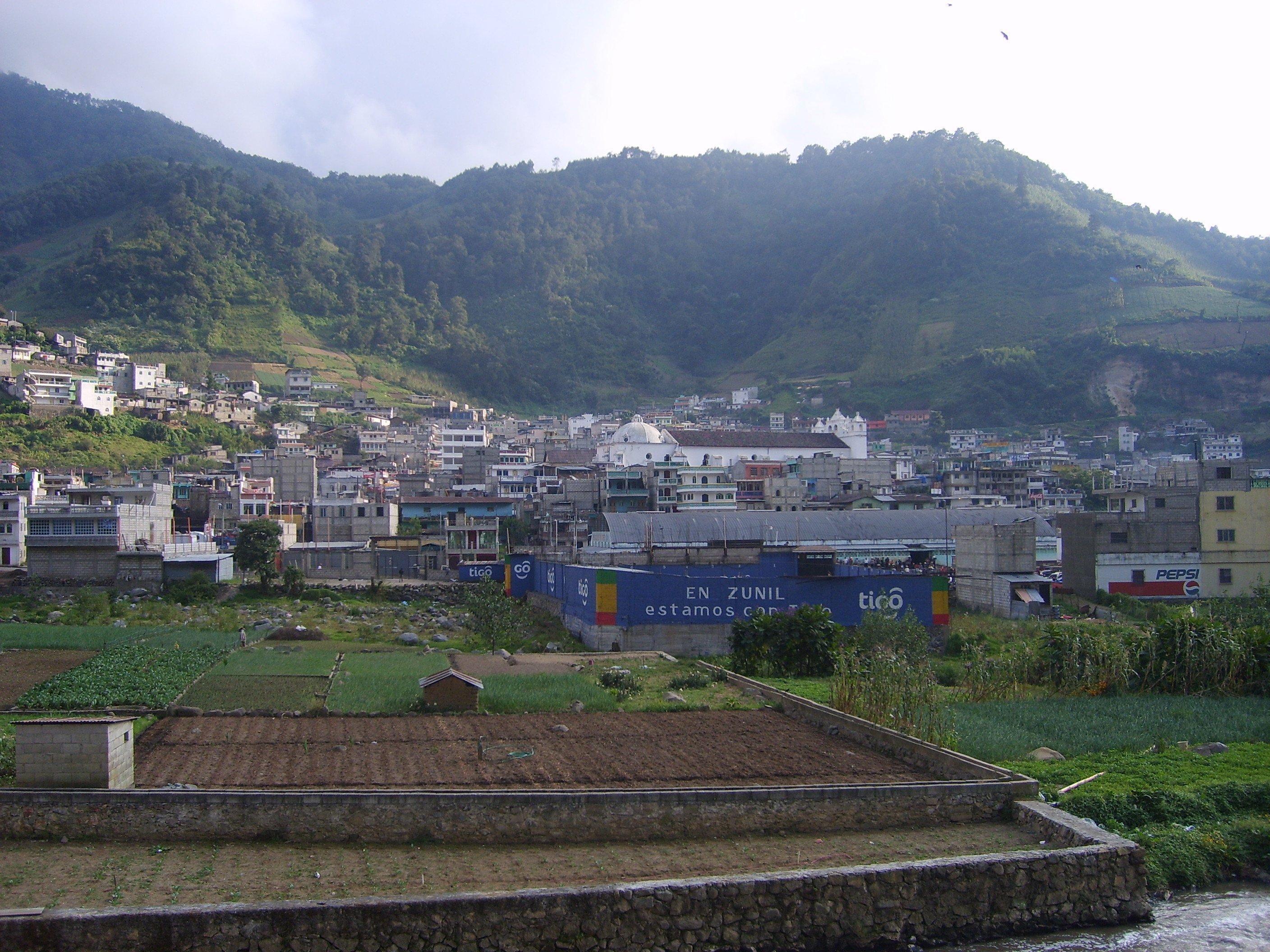 Panorama of Zunil from across the Samalá river. A church (see Image:Zunil_church.JPG) dominates in the middle.